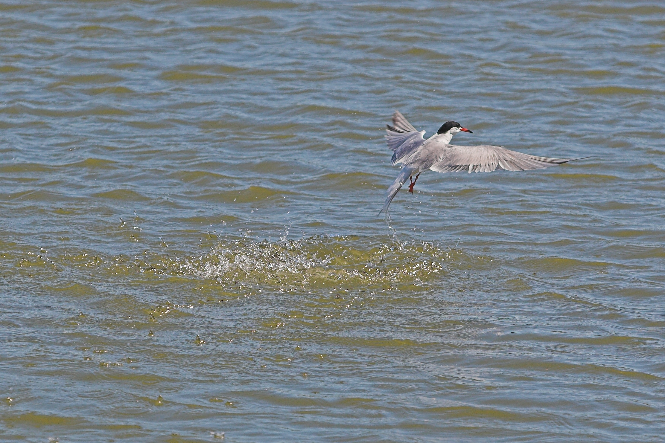 Sterna hirundo missing a catch. For succesfull catch, see SternaHirundoCatchA-C.